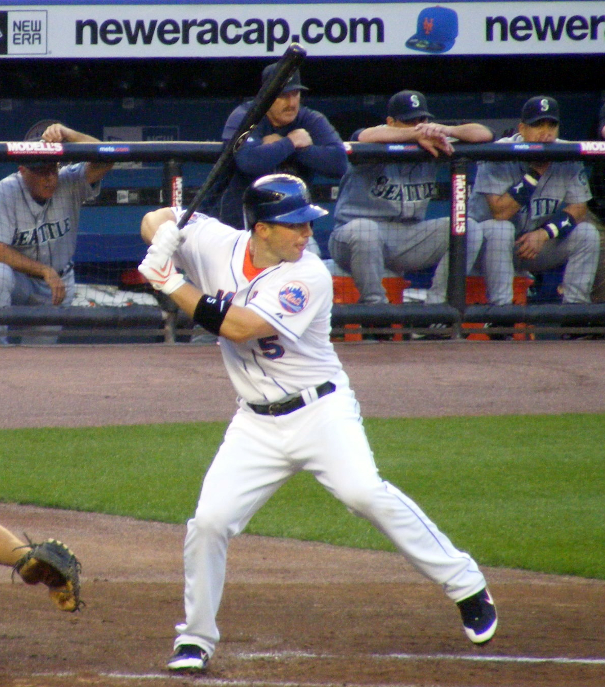 David Wright batting for the New York Mets on June 23, 2008